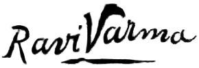 Signature of Raja Ravi Varma on his artwork.